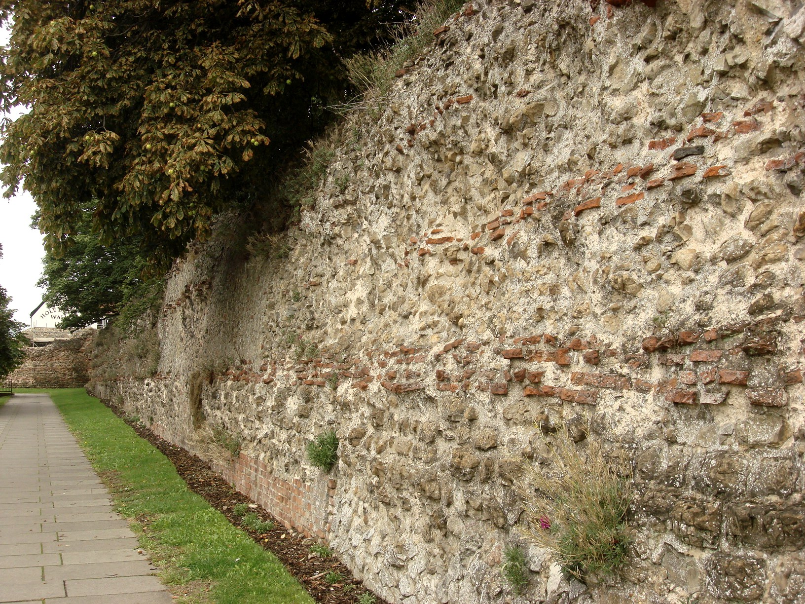 The Roman Town Wall